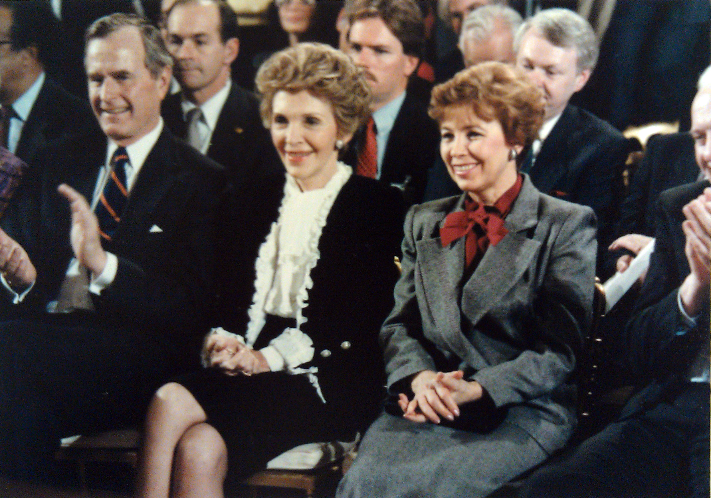 George H.W. Bush, Nancy Reagan, and Raisa Gorbachova attending the US-Soviet summit in Washington, D.C.